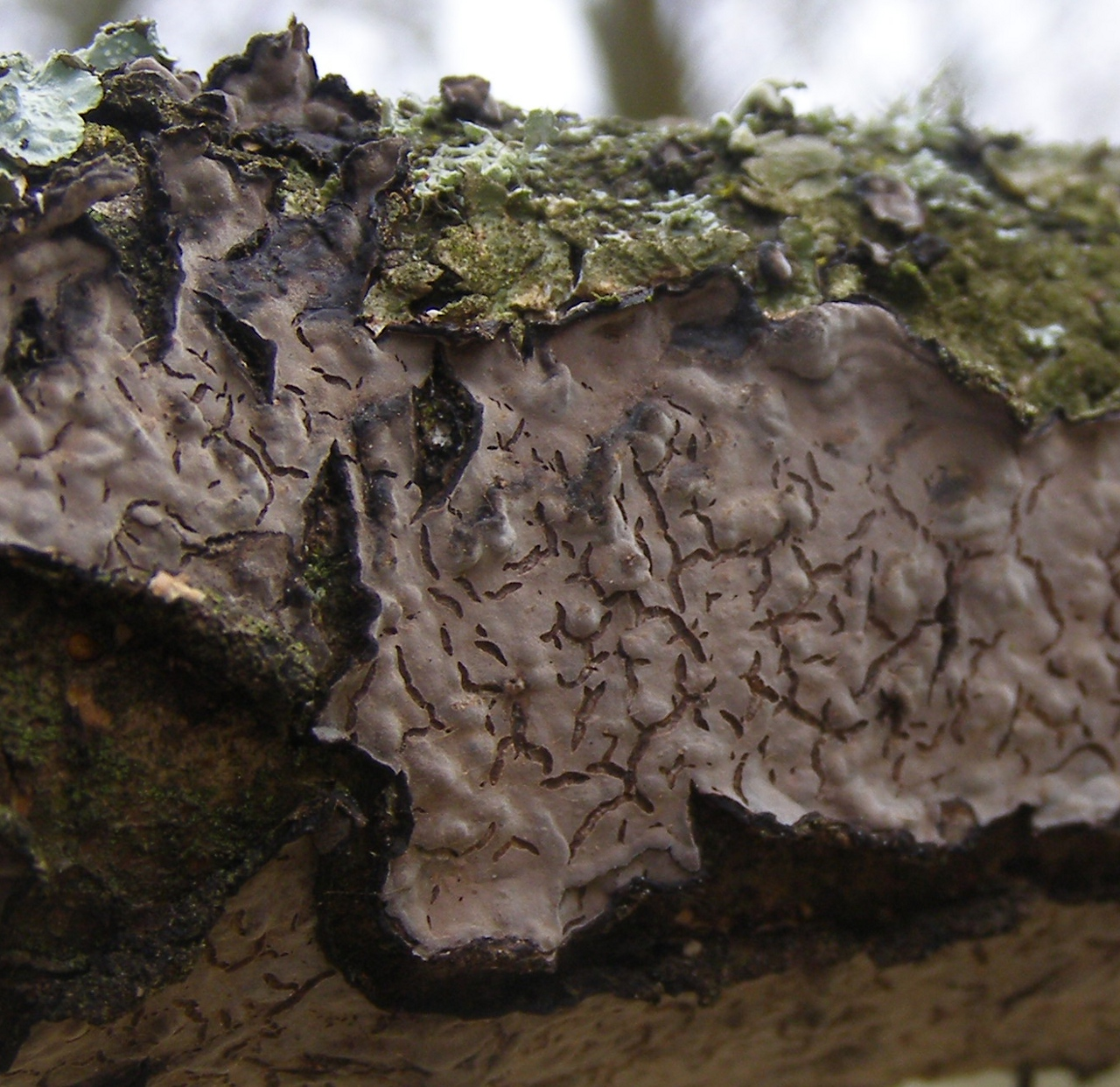 Peniophora quercina fungus on a dead branch of an oak tree. This specimen has dried out, the surface has cracked and the edges have curled up to reveal the black underside.